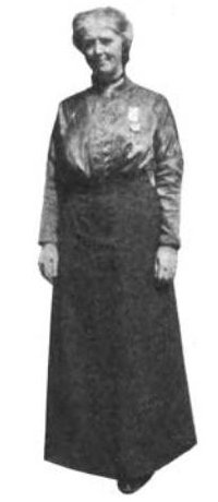 Photograph of Chrystal MacMillan attending the International Congress of Women at The Hague during April and May 1915.